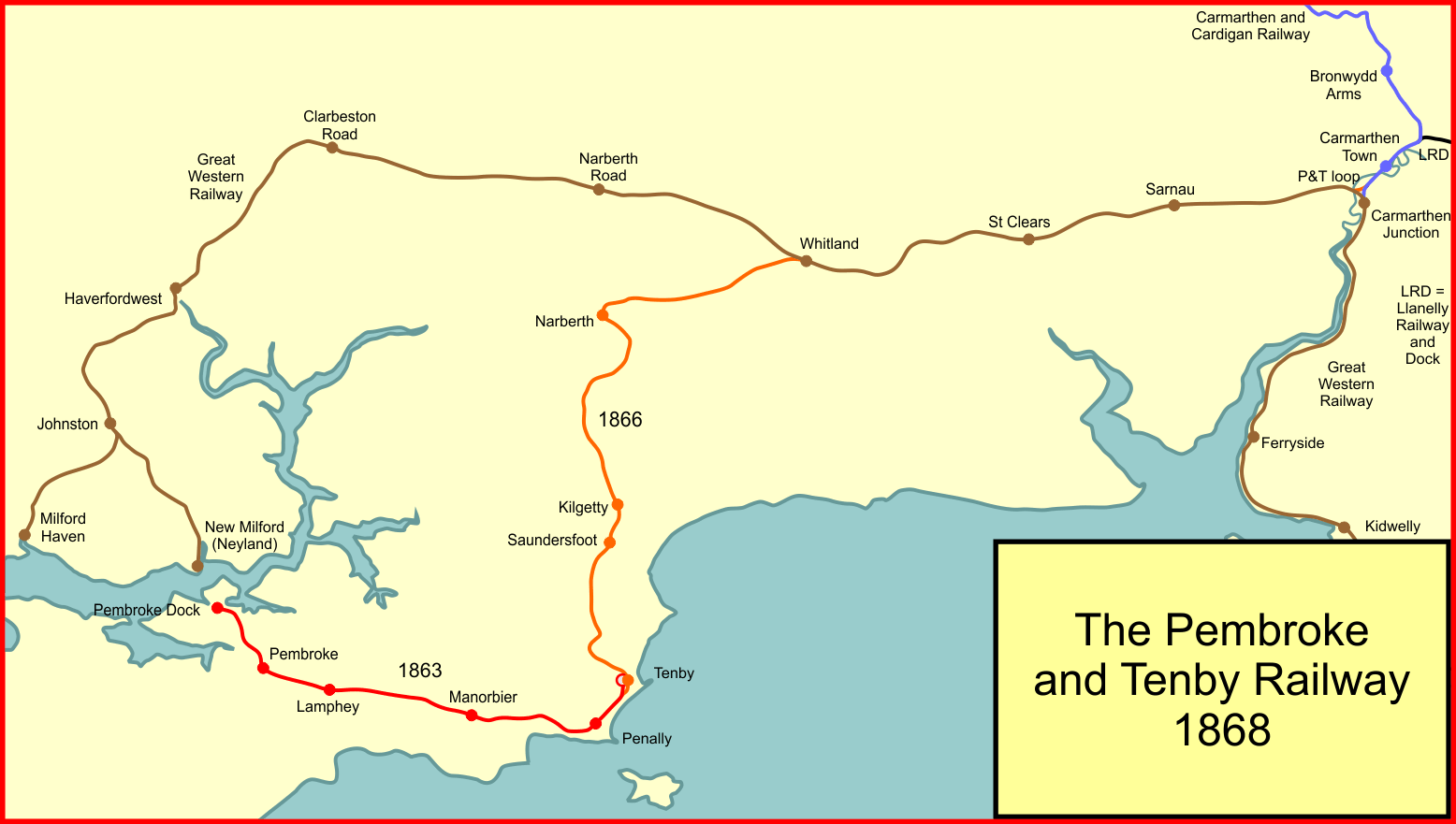 System map of the Pembroke and Tenby Railway, Wales, in 1868